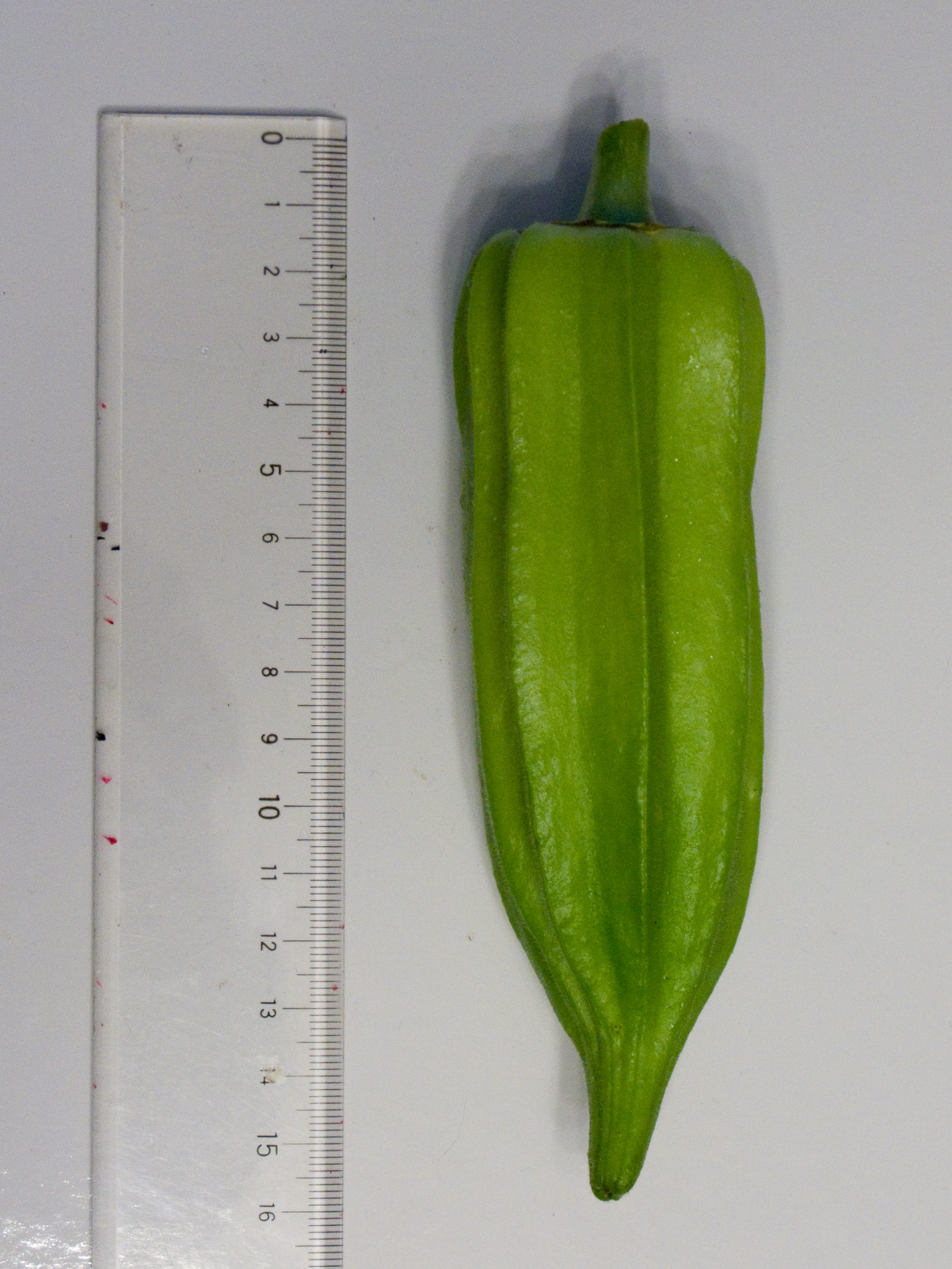 Star of David Okra.